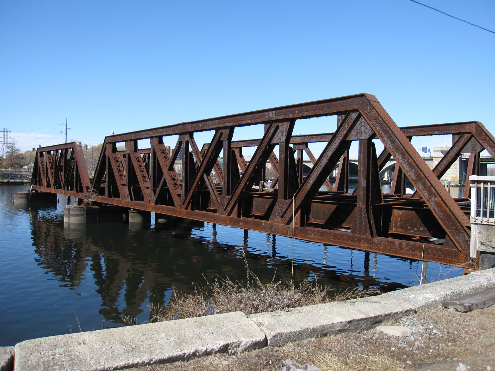 South side, taken in East Providence